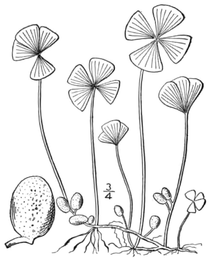 Fig. 85. Marsilea quadrifolia from the second edition of An Illustrated Flora of the Northern United States, Canada and the British Possessions (New York, 1913)